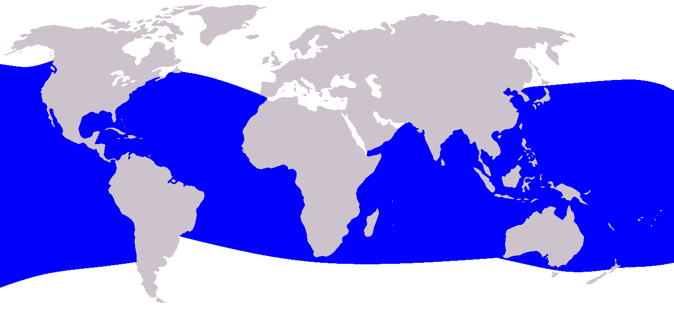 Distribution of Kogia sima